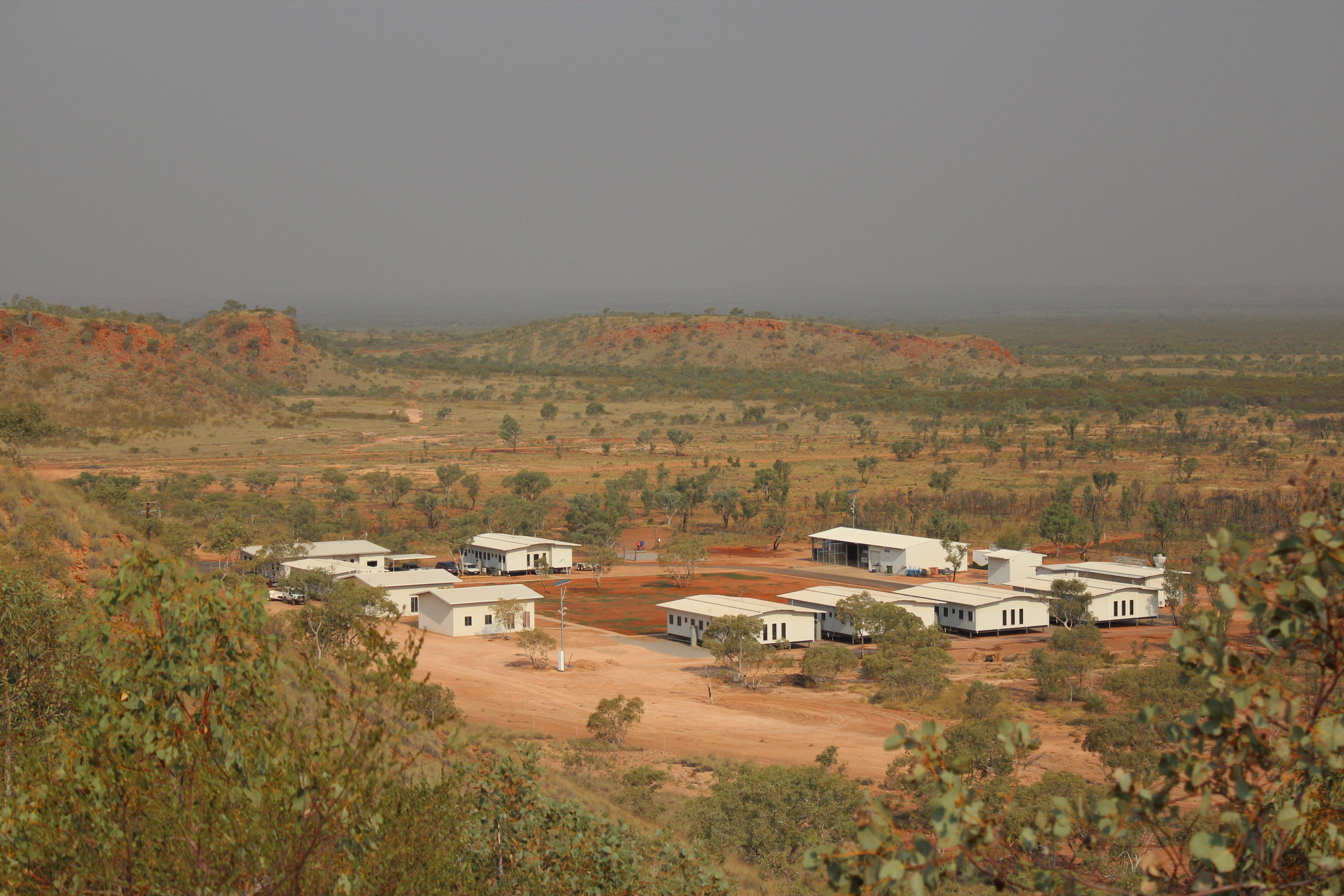 The Barkly Work Camp outside Tennant Creek in the Northern Territory of Australia